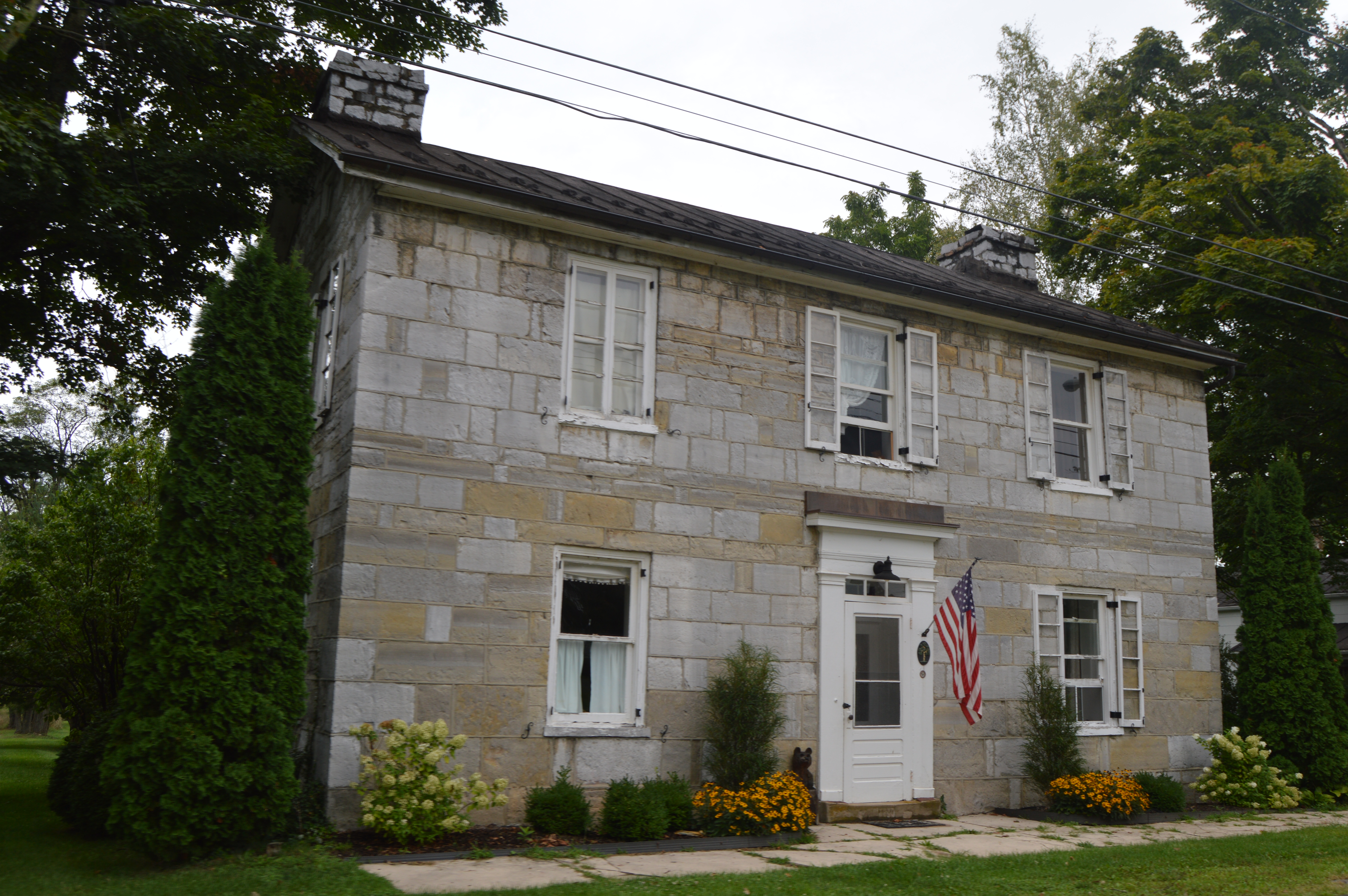 A stone house on the western side of Main Road (Pennsylvania Route 326) in central Rainsburg, Pennsylvania, United States.